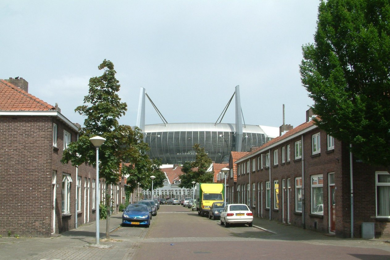 Philips Dorp and the Philips Stadium, Eindhoven